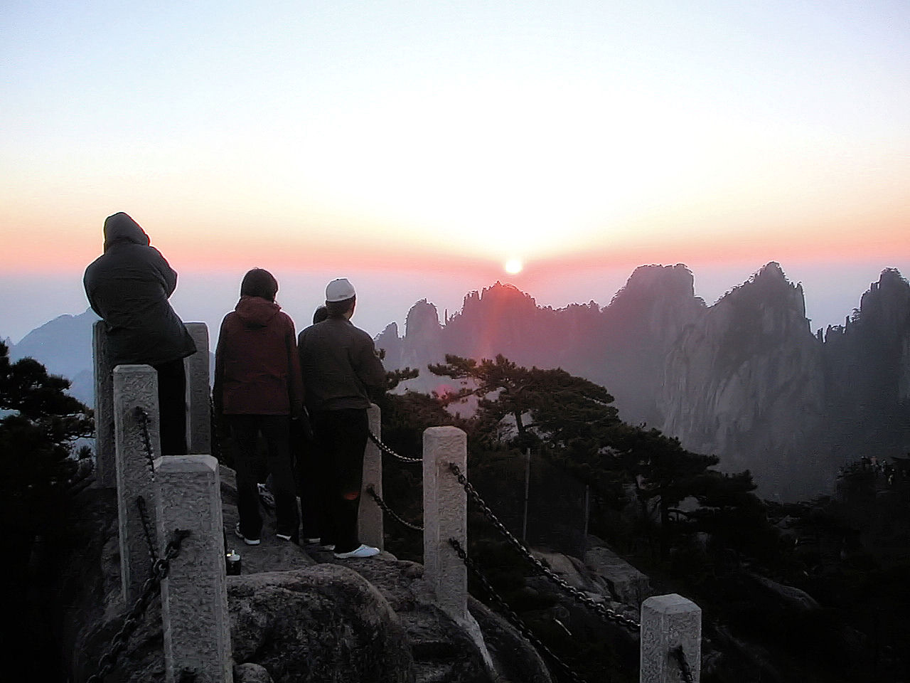 Sunrise of Mount Huang in China.jpg